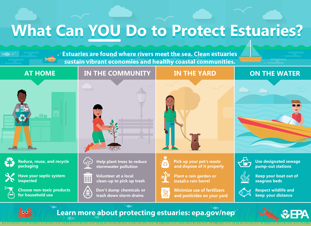 Infographic, "What Can You Do to Protect Estuaries?"